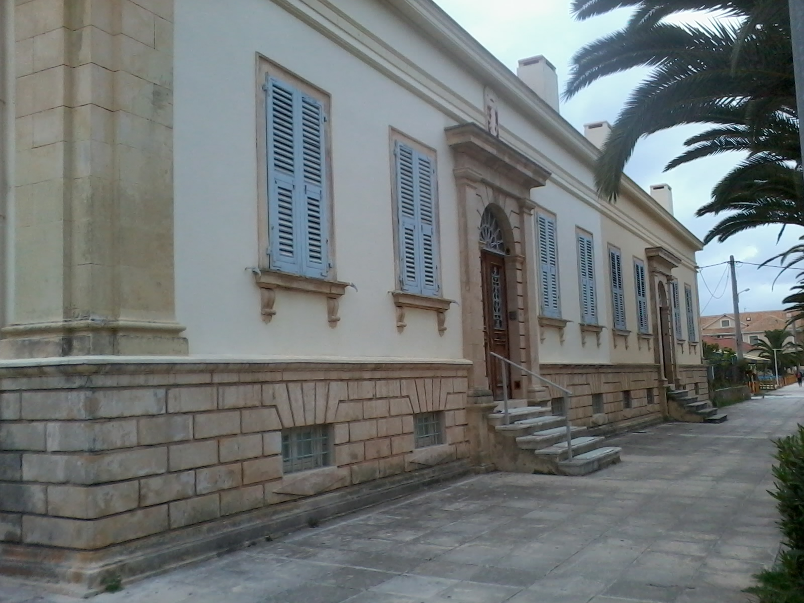 View of Kosmetatos mansion in Argostoli, Kefalonia. One of the two buildings that remained standing in Argostoli after the 1953 earthquake.